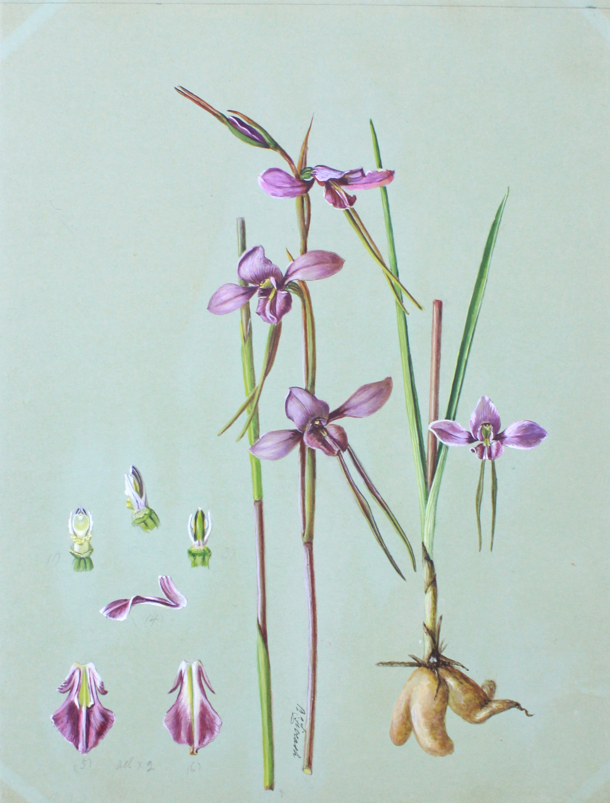 Example of botanical illustration by Australian artist Rosa Fiveash